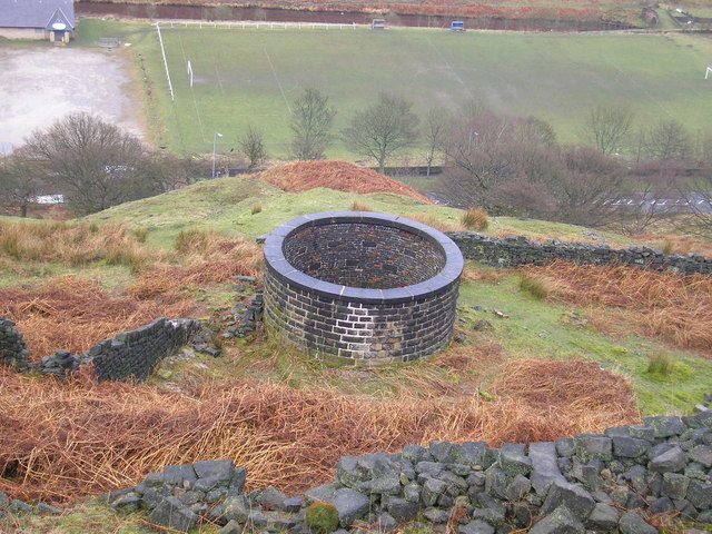 Summit Tunnel ventilation shaft